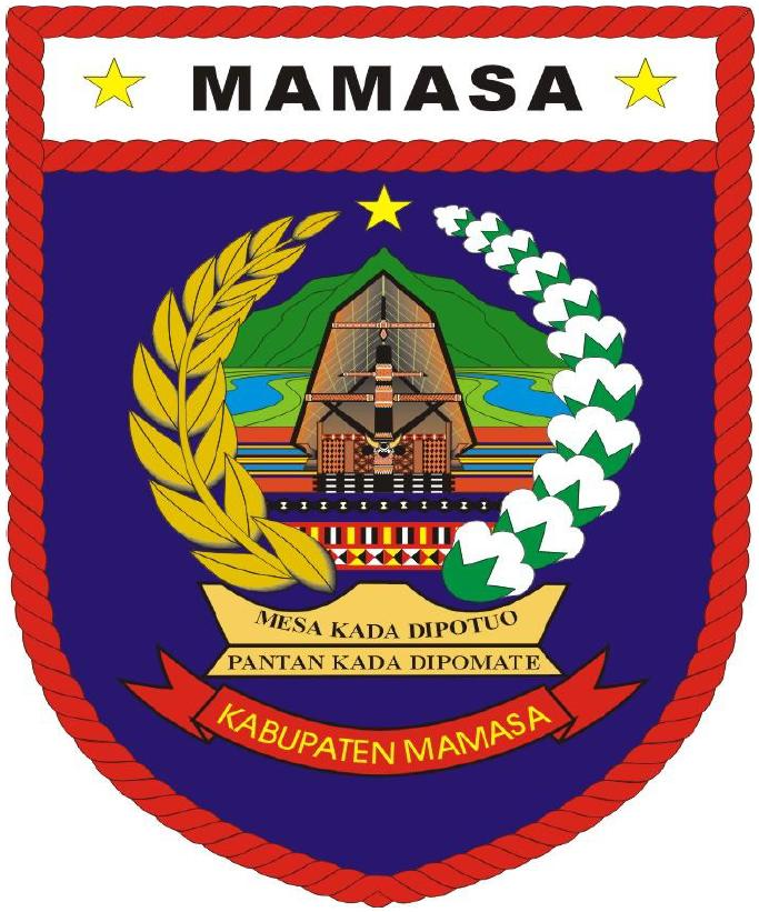 Coat of arms of Mamasa Regeny, West Sulawesi